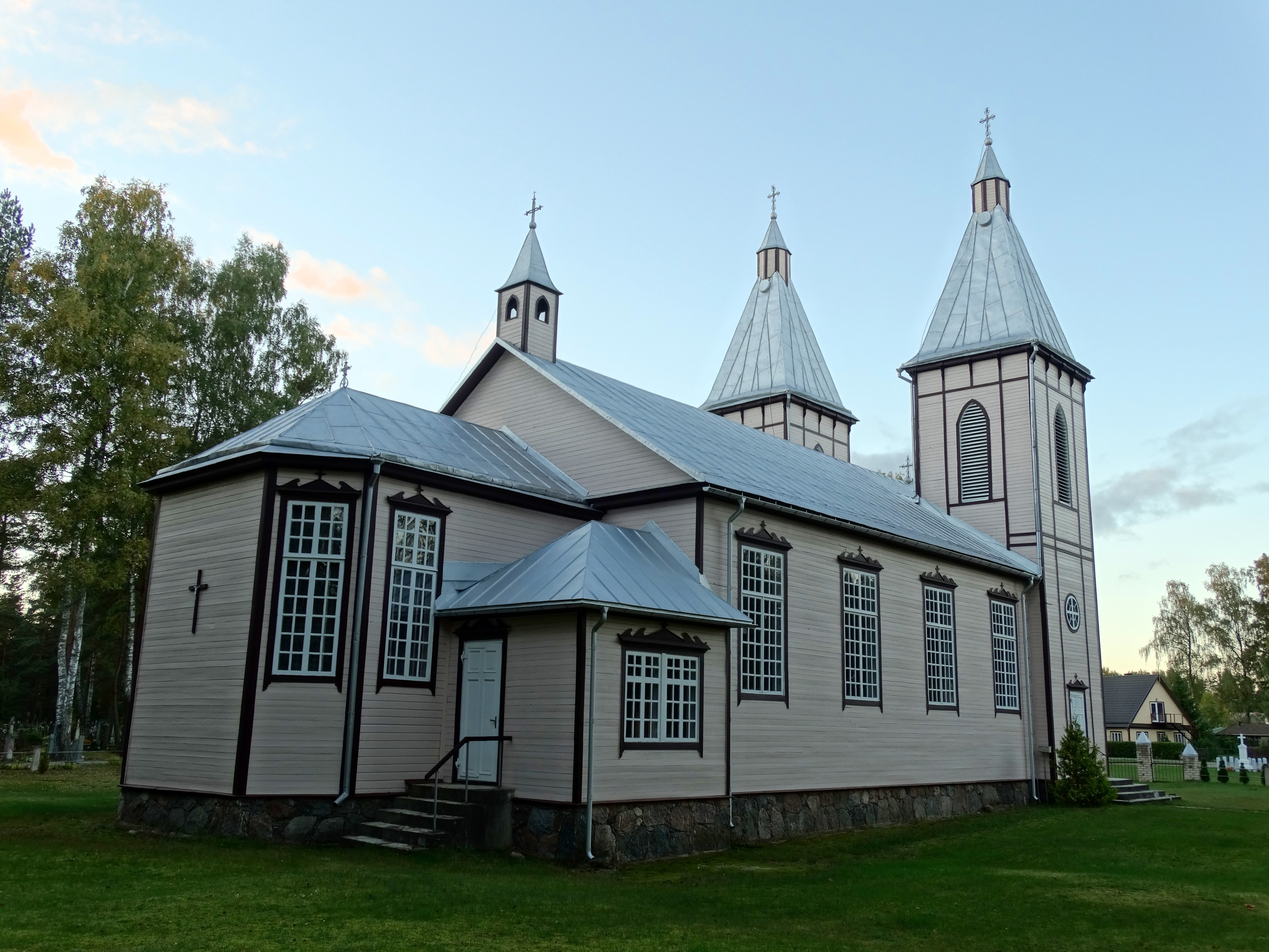 Catholic church, Švedriškė, Ignalina district, Lithuania